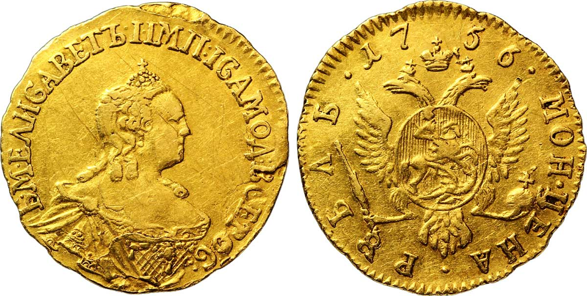 1 Rouble d'or (1,59 g, diam. : 16,5 mm) à l'effigie d'Élisabeth Ire de Russie, 1756